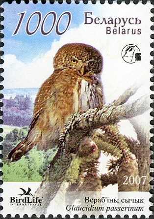 Stamp of Belarus